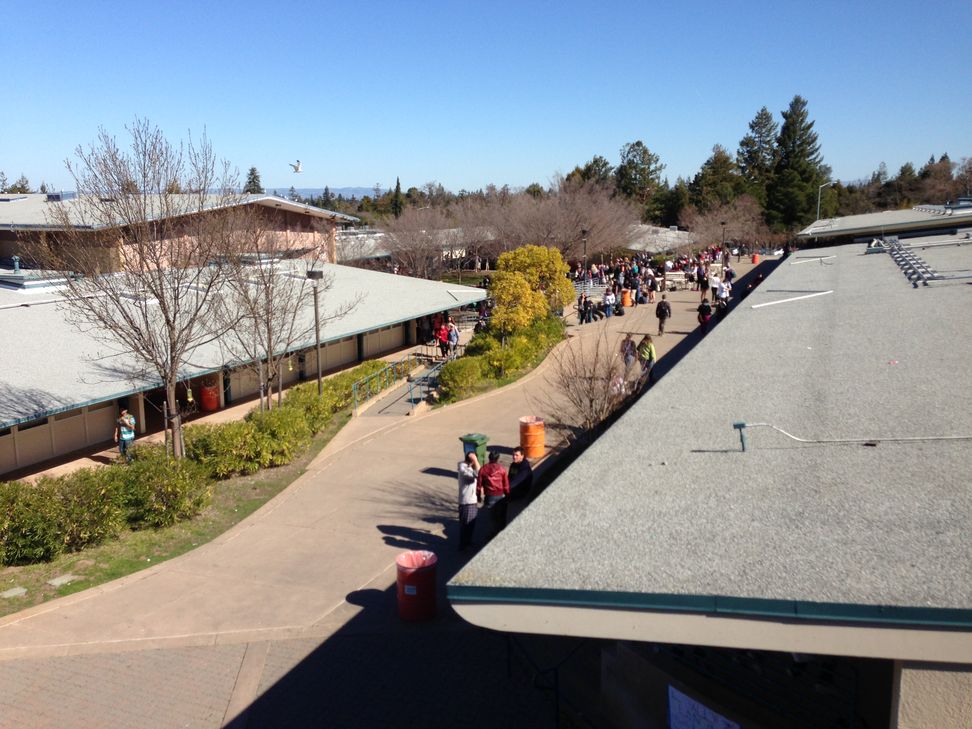 This photo is of Woodside High School in Woodside, CA, looking toward the main quad from the deck of the library.